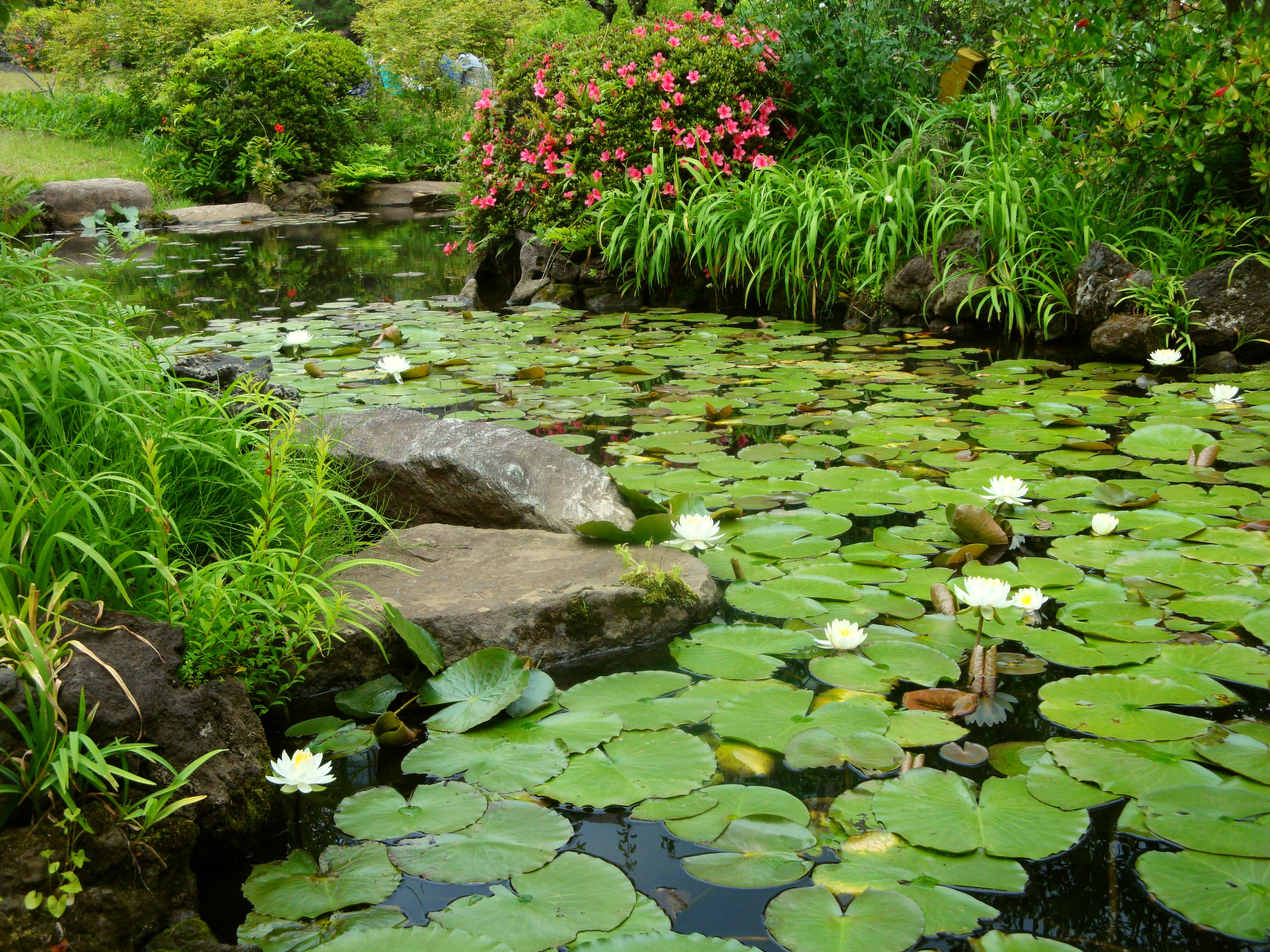 A pond with lotuses in Okuma Garden